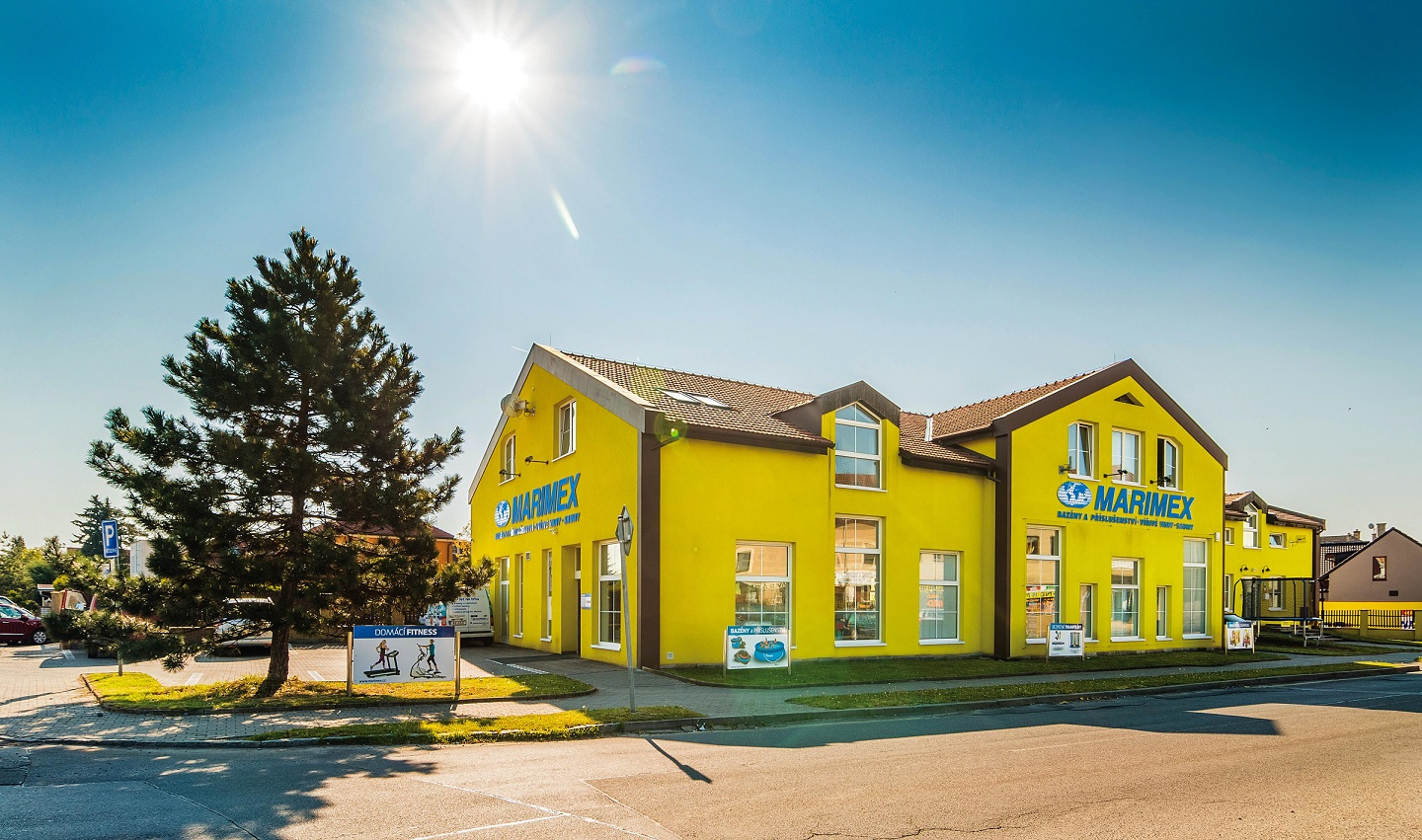 The main building of the Czech company "Marimex CZ".